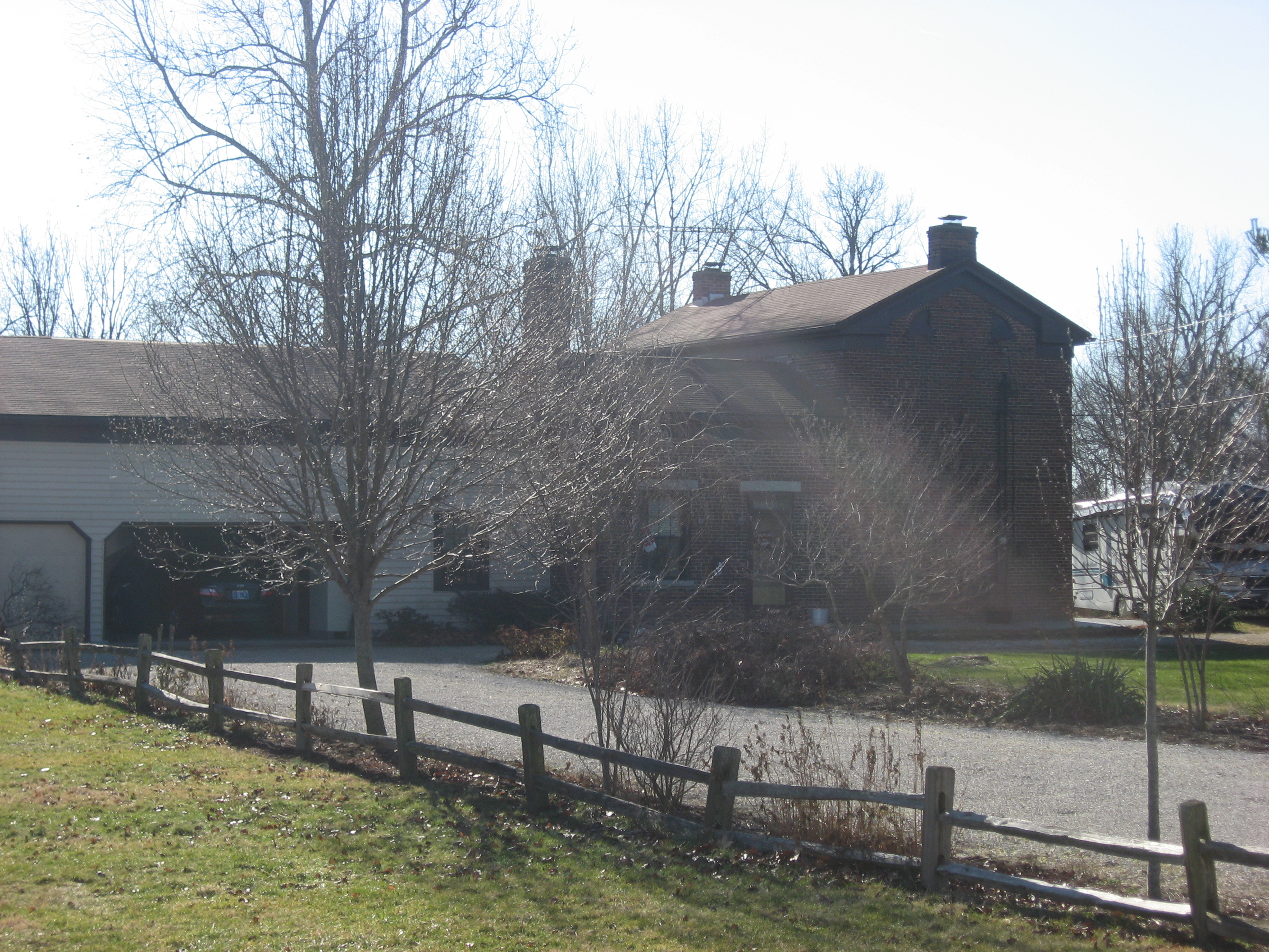 Front of Felt's Farmhouse, located on the southern side of Race Street on the eastern edge of Eaton, Indiana, United States. Built in 1830, it is listed on the National Register of Historic Places. A better angle could not be obtained: the sun was behind the house at this angle, but no other angle could be used without trespassing.